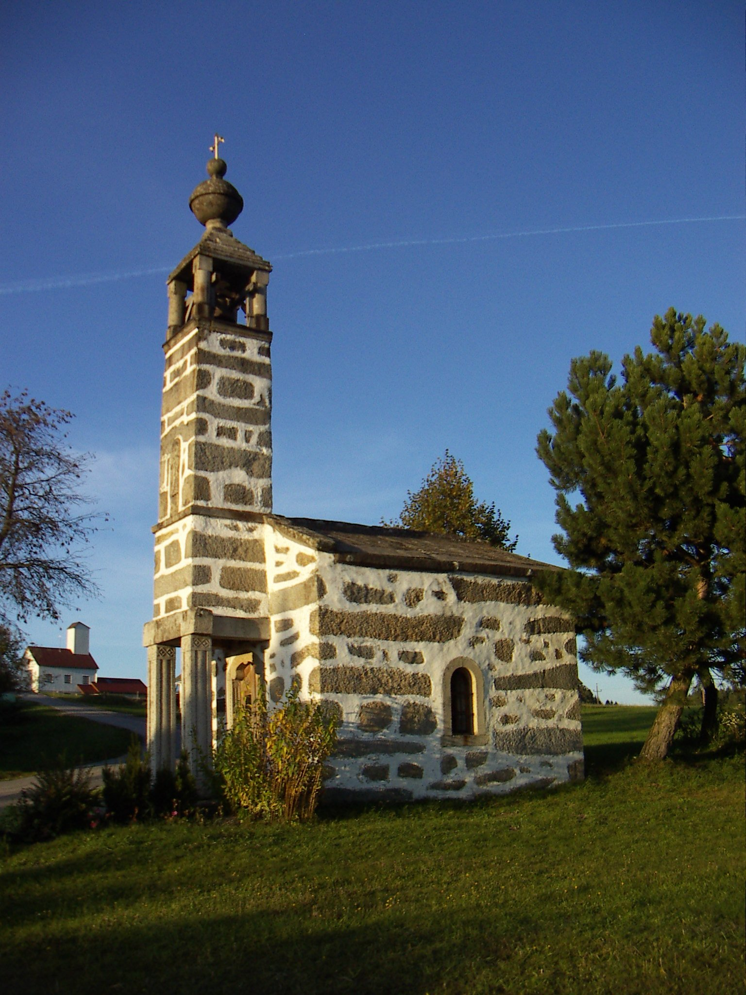 Roman Catholic Chapel of Wienau, Upper Austria